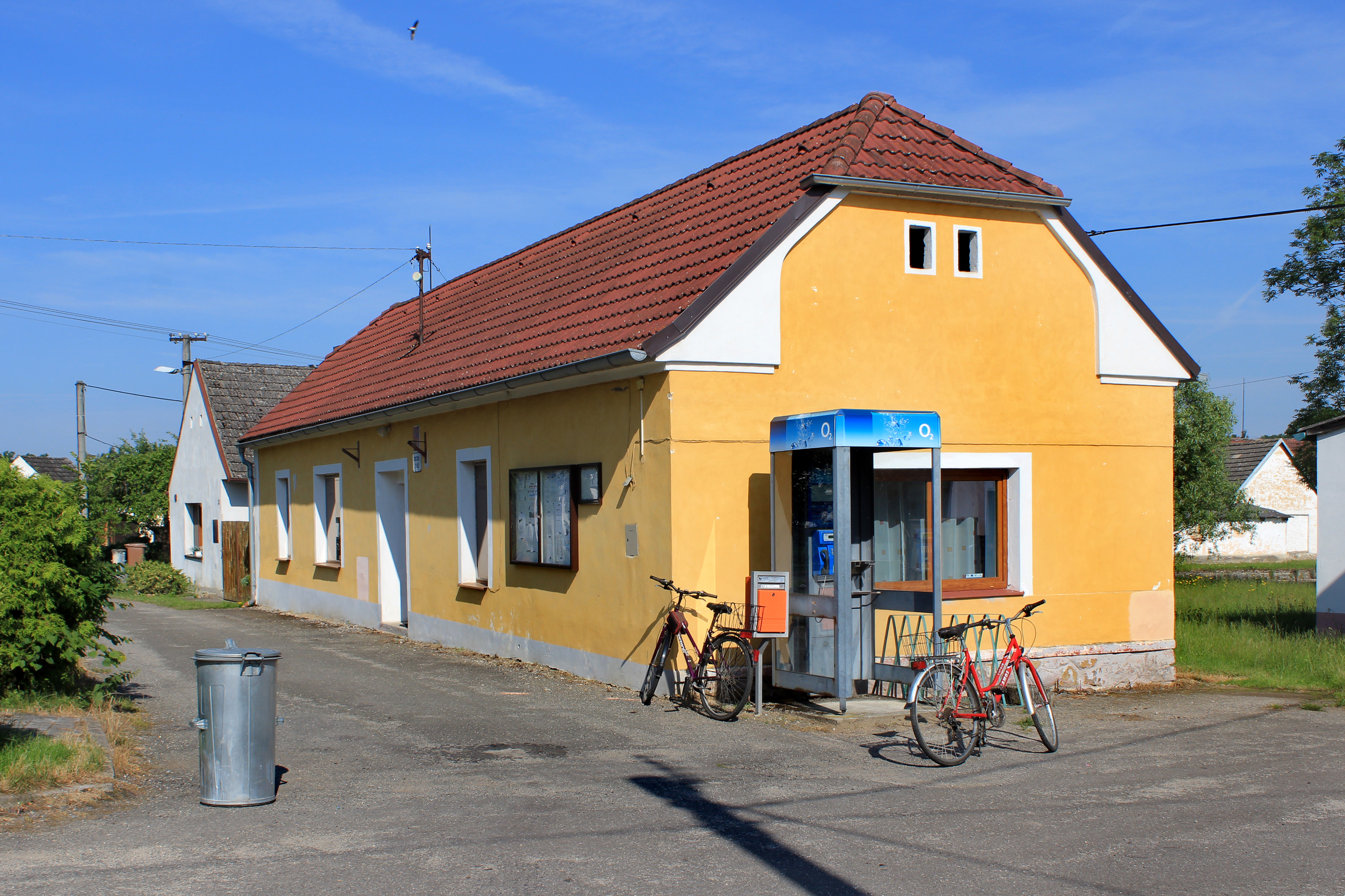 Municipal office in Frahelž village, Czech Republic.